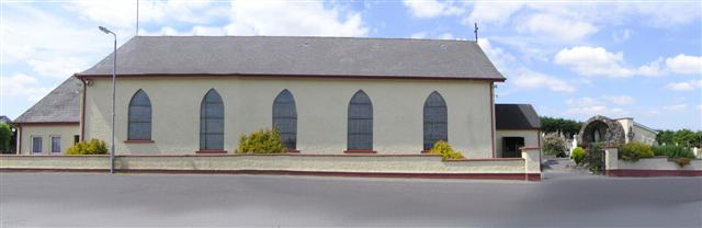 Greencastle RC Church. It is located to the east of the hamlet.